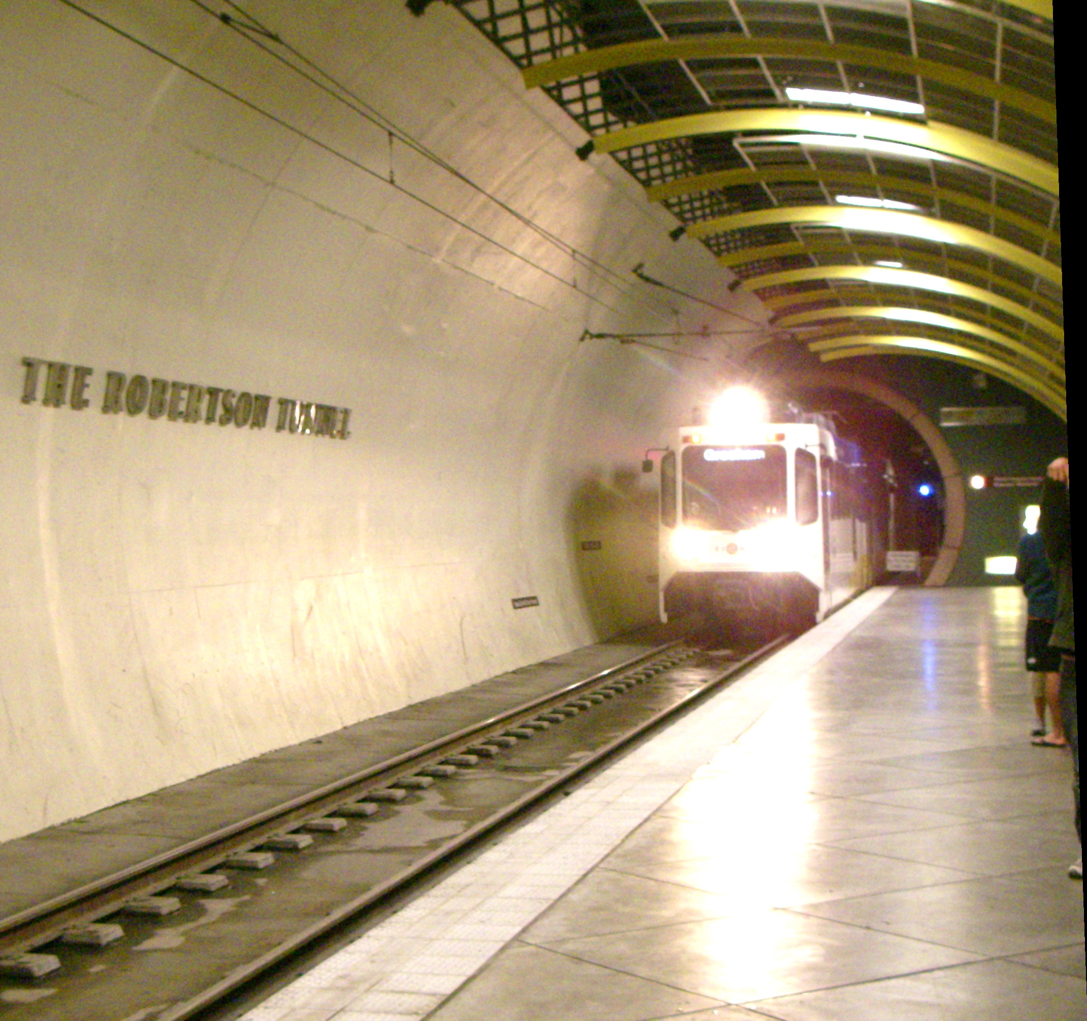 Robertson Tunnel sign on the wall of the Washington Park MAX station